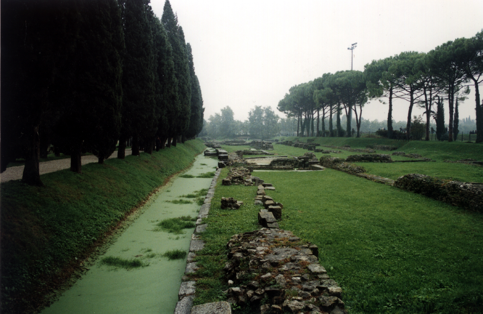 Antique port of Aquileia - Quaywall with ring, and warehouses.